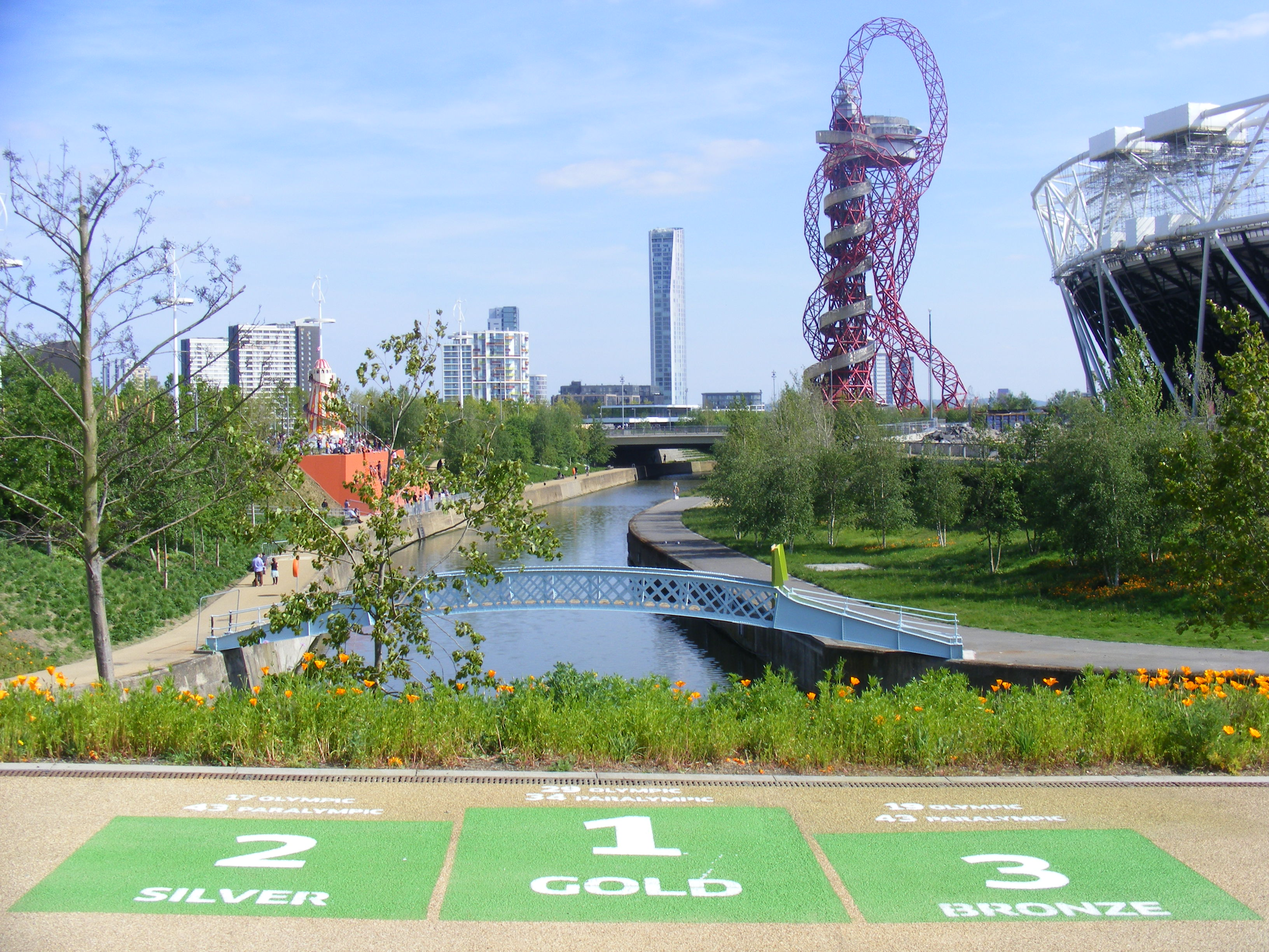 Queen Elizabeth Olympic Park